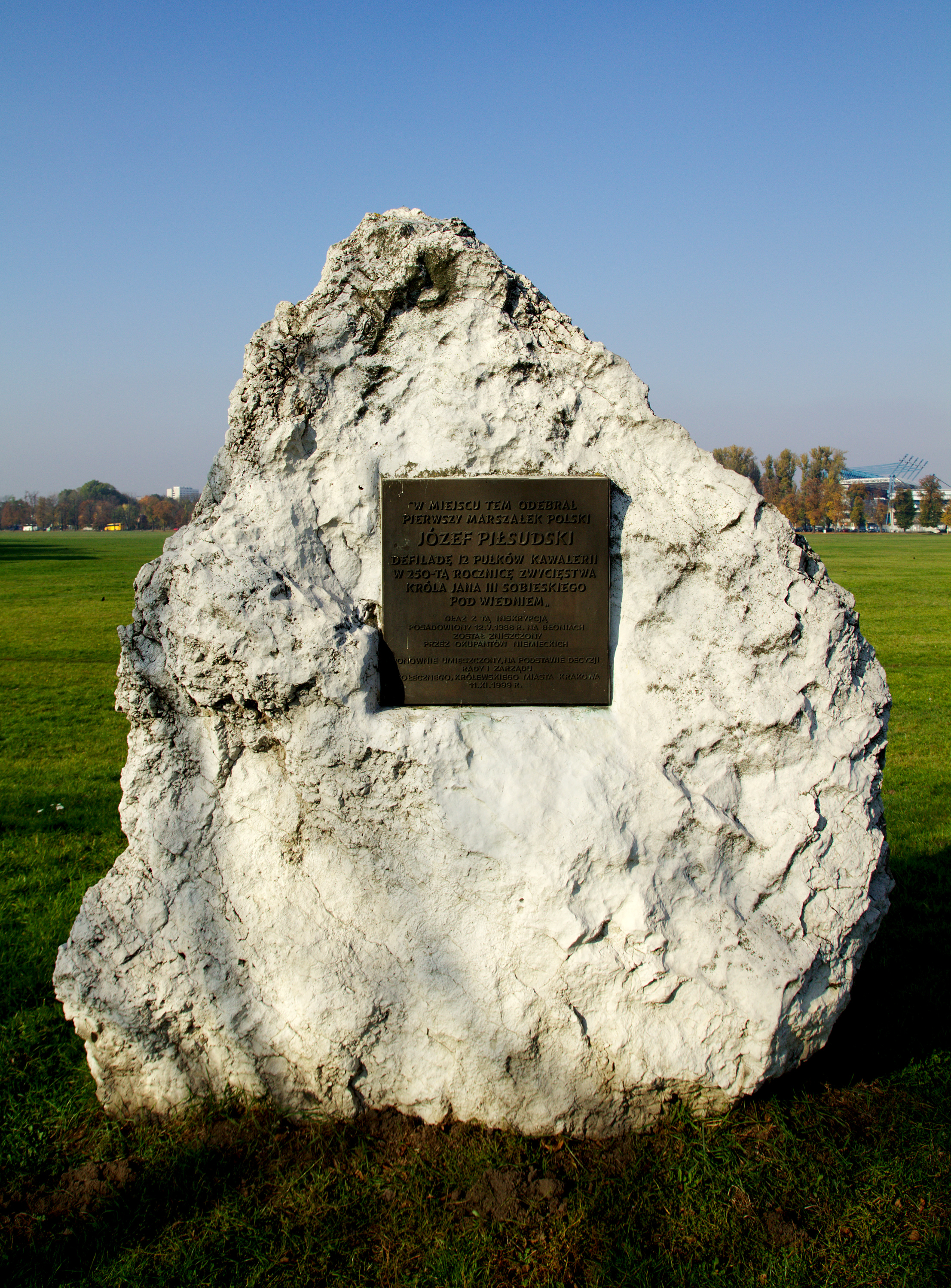 Józef Piłsudski Memorial Boulder